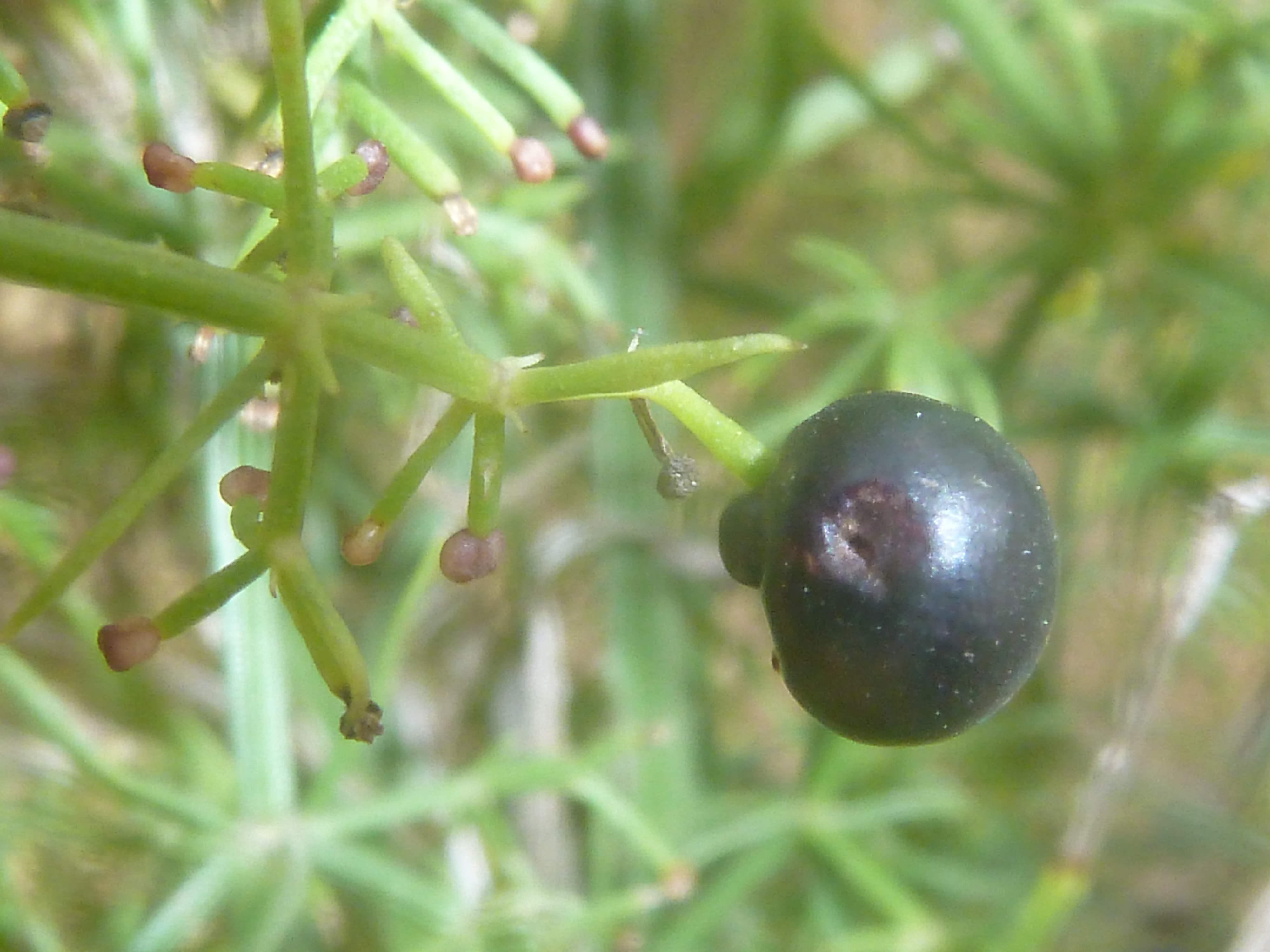 Fruit of Rubia horrida in Moreleta Kloof Nature Reserve in Pretoria